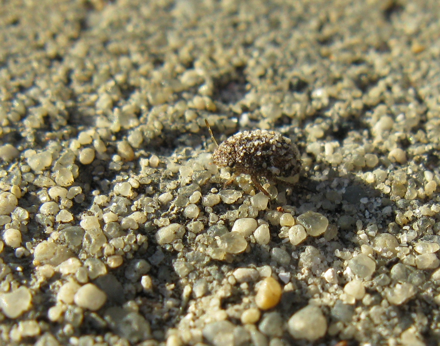 Nymph of undetermined species of Gelastocoridae covered with sand. Photographed near Helderberg, South Africa